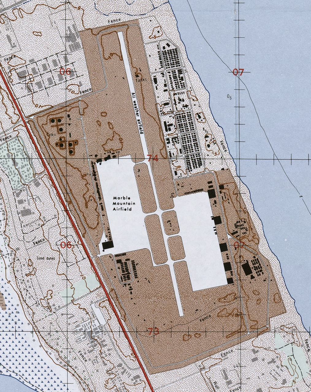 Map of Marble Mountain Airfield. From a U.S. Army map of the city of Da Nang, 1969.